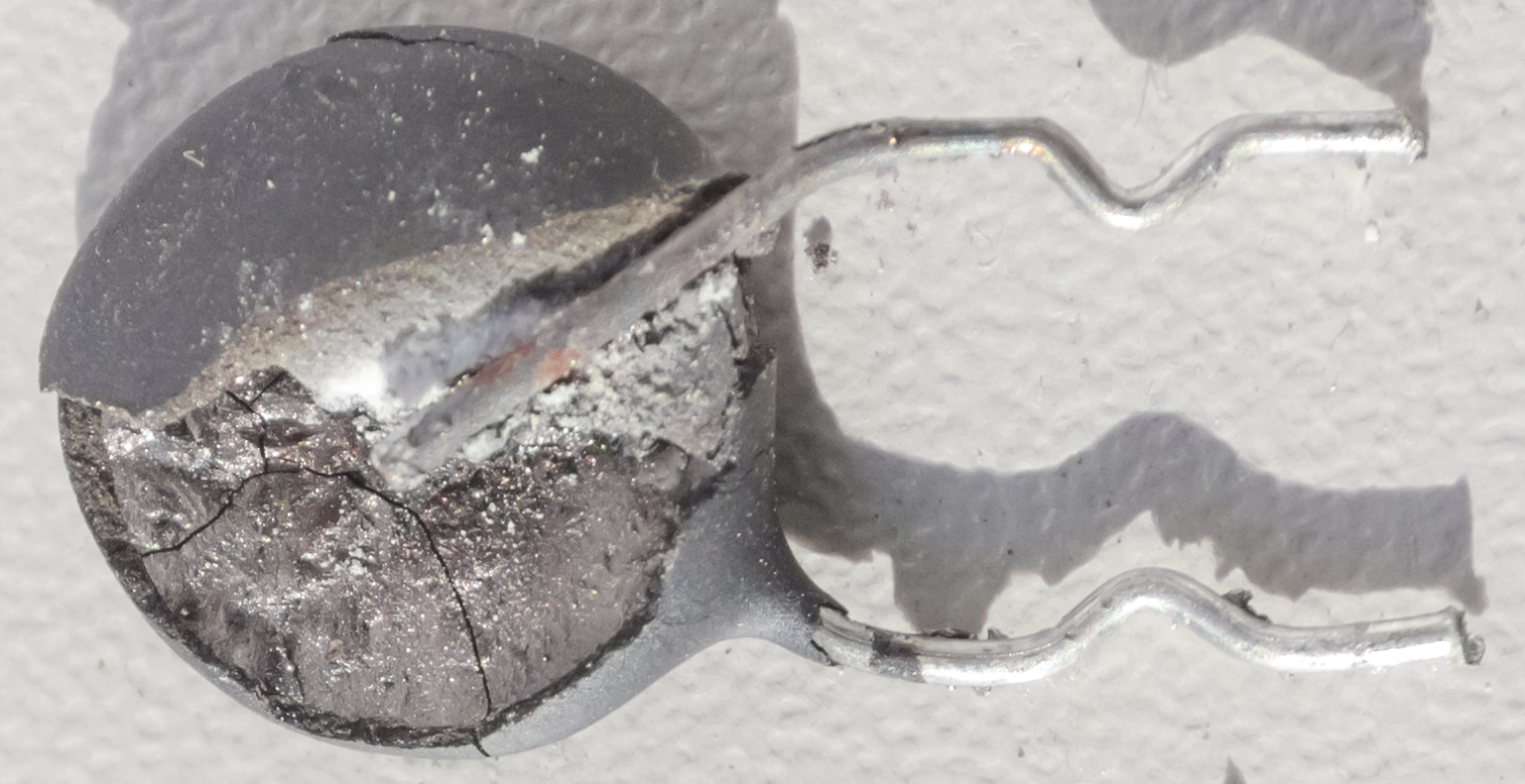 A failed NTC thermistor that worked as an inrush current limiter in a SMPS. The most likely cause of failure (thermal runaway) is overload caused by engineering failure (the part was constantly subjected to a higher load than what it was designed for).